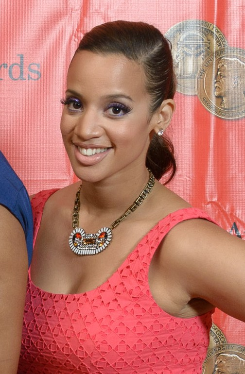 Orange is the New Black cast at the 73rd Annual Peabody Awards.